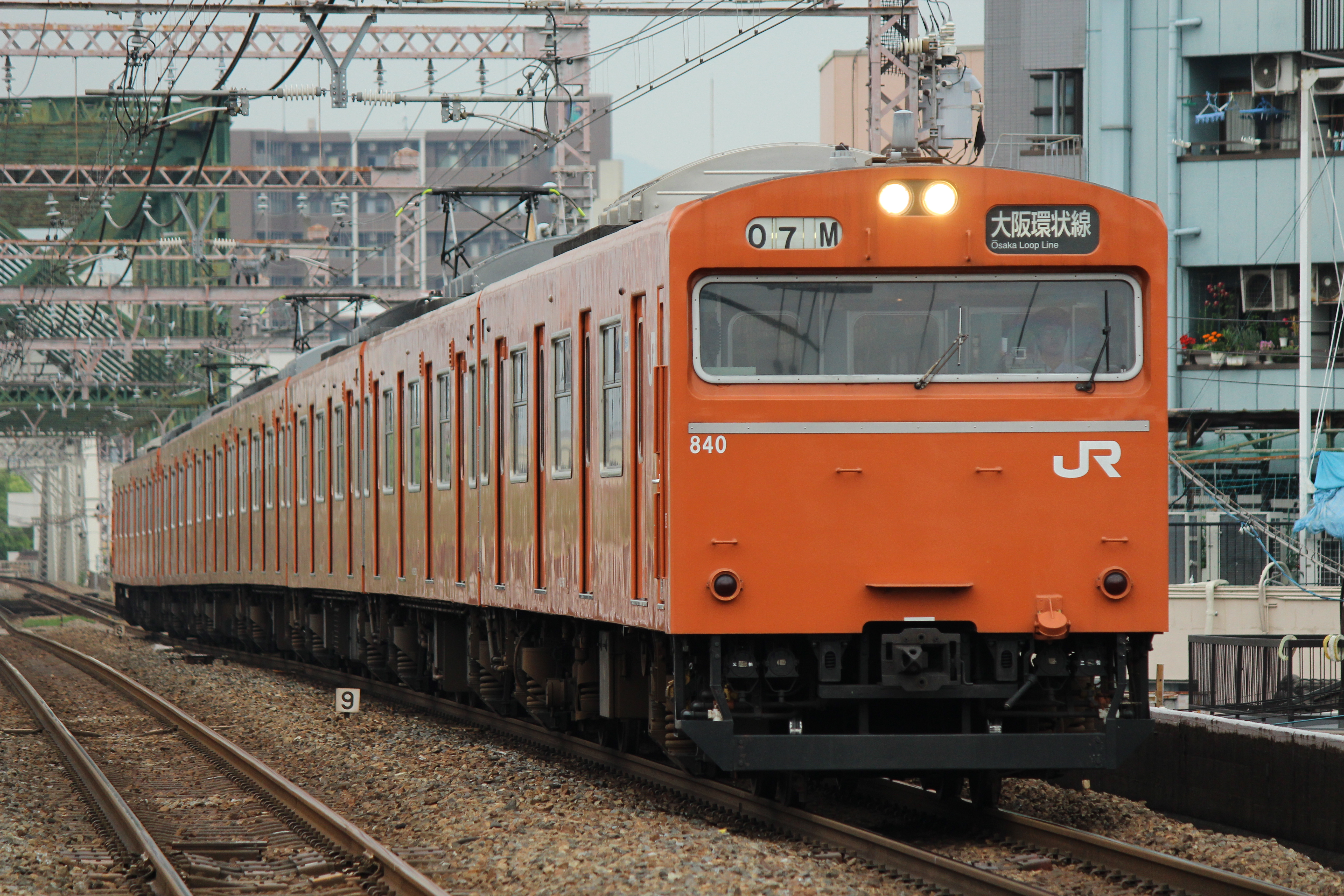 JR West refurbished 103 series EMU set 840 on an Osaka Loop Line service